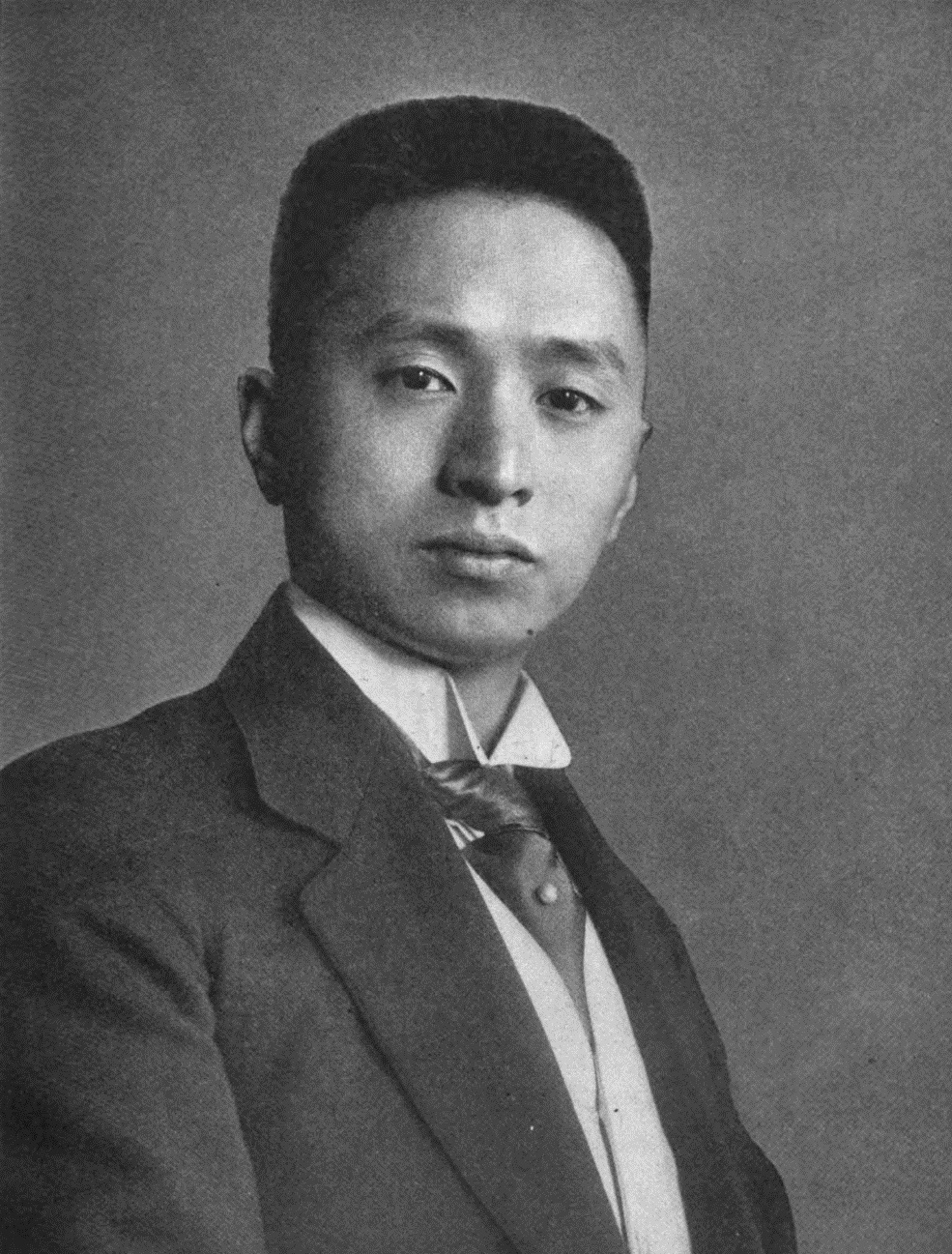 Portrait of Wellington Koo